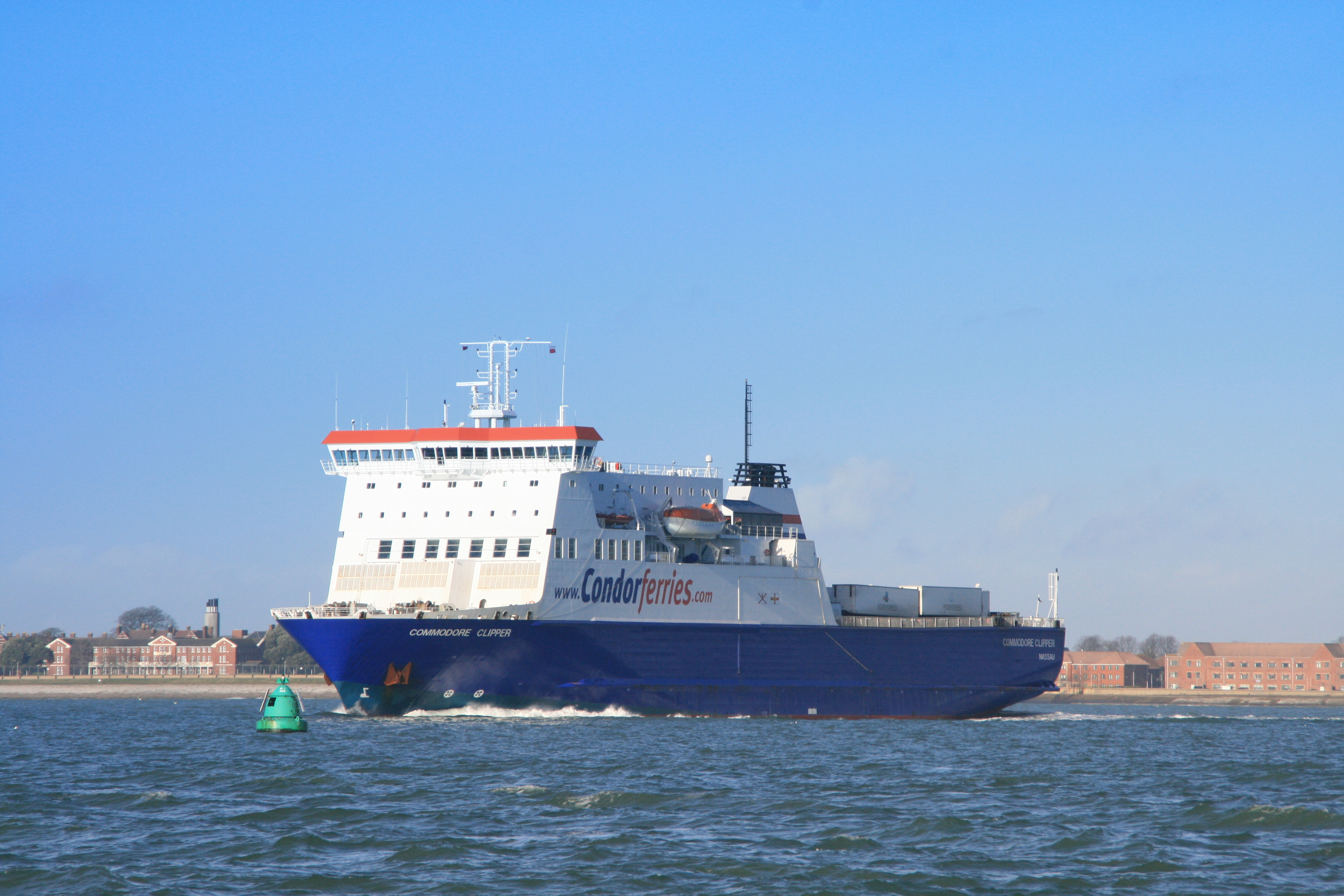 The English Channel commercial vehicle ferry Commodore Clipper of Condor Ferries outbound from Portsmouth Ferry Port on 16 February 2011. Image uploaded by me User:George.Hutchinson from a photograph taken by and supplied by Brian Burnell. Wikipedia editors are reminded that the copyright remains with the photographer, and that the terms of the Creative Commons licence; that allow editors to reuse this image apply to Wikipedia editors also, as they do to other re-users of this image. Breaches of the licence terms are not only unlawful, but are also antisocial, in that breaches discourage photographers from making their images freely available to everyone without payment. Wikipedia re-users are also reminded of the license terms that derivatives of this image should not imply that the adaptation is endorsed or approved by the author or copyright holder. Neither should derivatives be presented as the creation of the author or copyright holder, while clearly stating that the adaptation is a derivative of the original. Attribution online should be in this format Brian Burnell. On the printed page, a simpler form is acceptable - example: "Image: Brian Burnell". Non-Wikipedia users are requested to advise Brian Burnell of its use other than on Wikipedia.